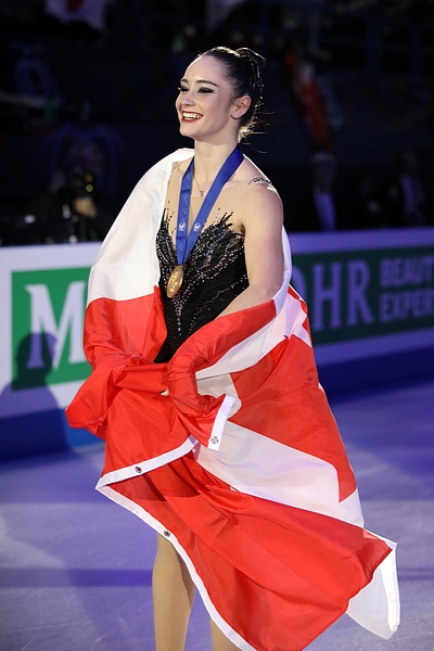 Photos – World Championships 2018 – Ladies (Medalists)